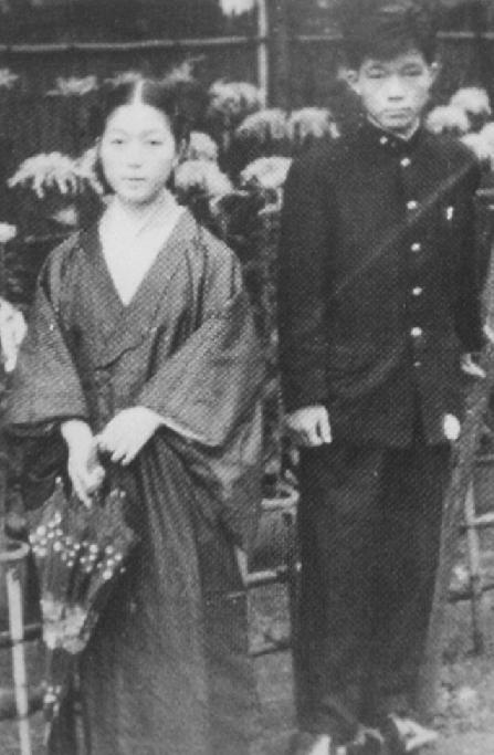 Picture of Kyu Sakamoto and his sister sister Yachiyo Endo, 1956